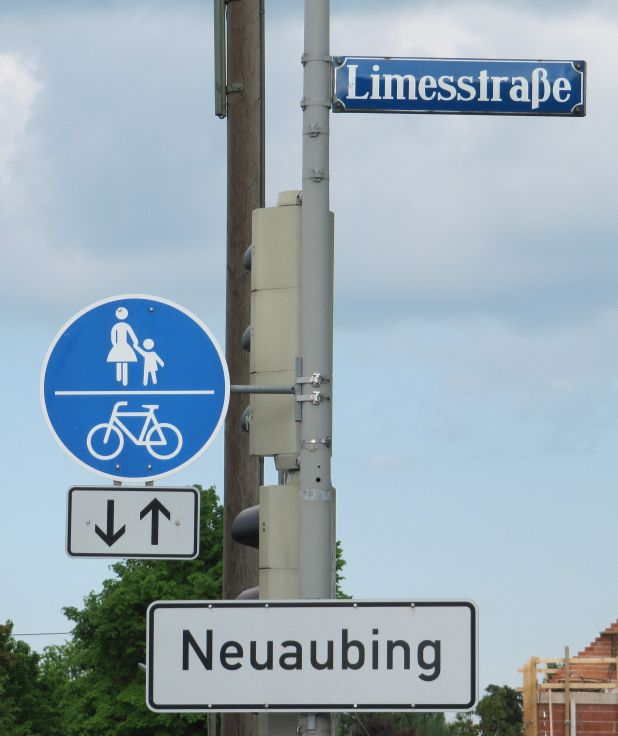 Munich-Aubing: Street signs at the corner of Limesstraße, Bodenseestraße.